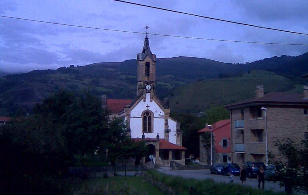 Church of St. John the Baptist, Ontaneda (Cantabria)